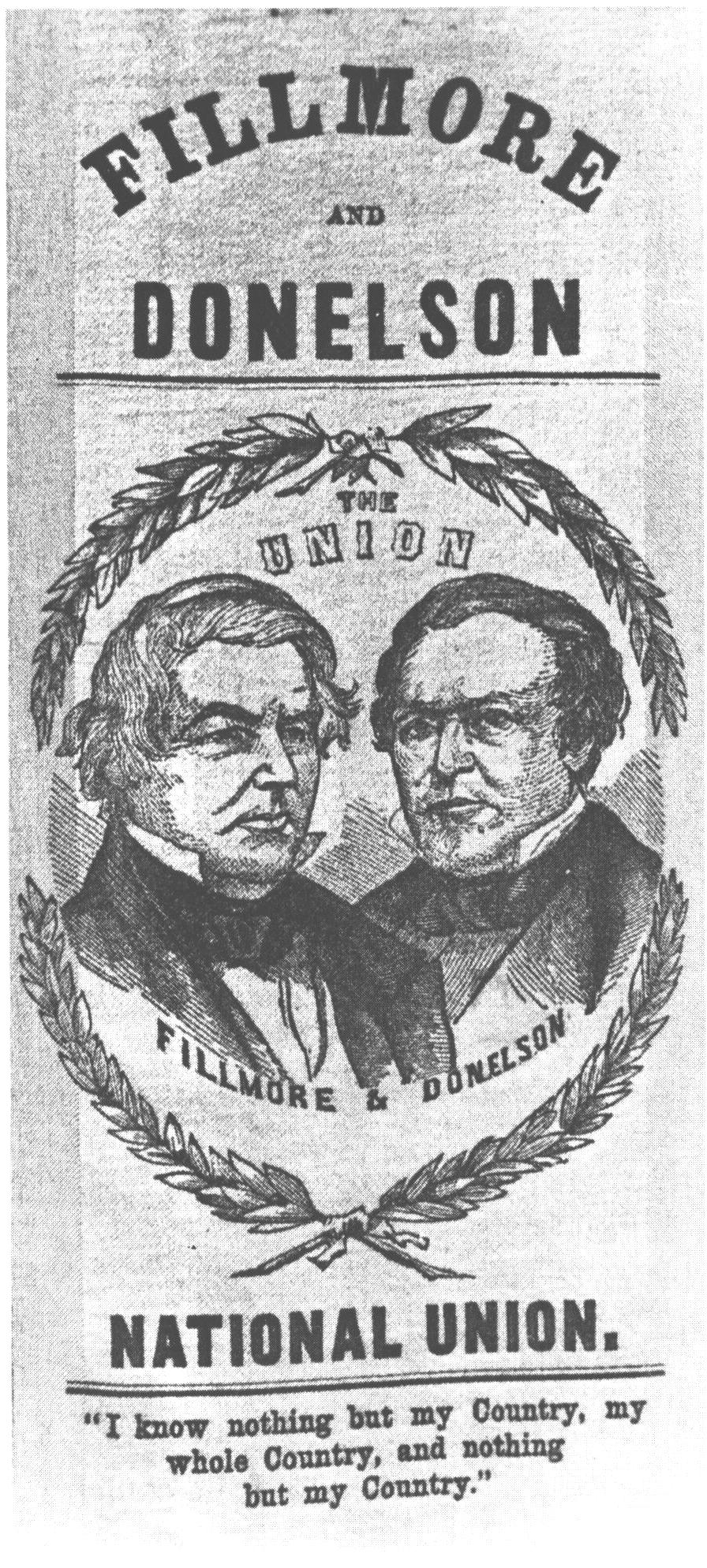 1856 campaign poster for American (Known Nothing) party